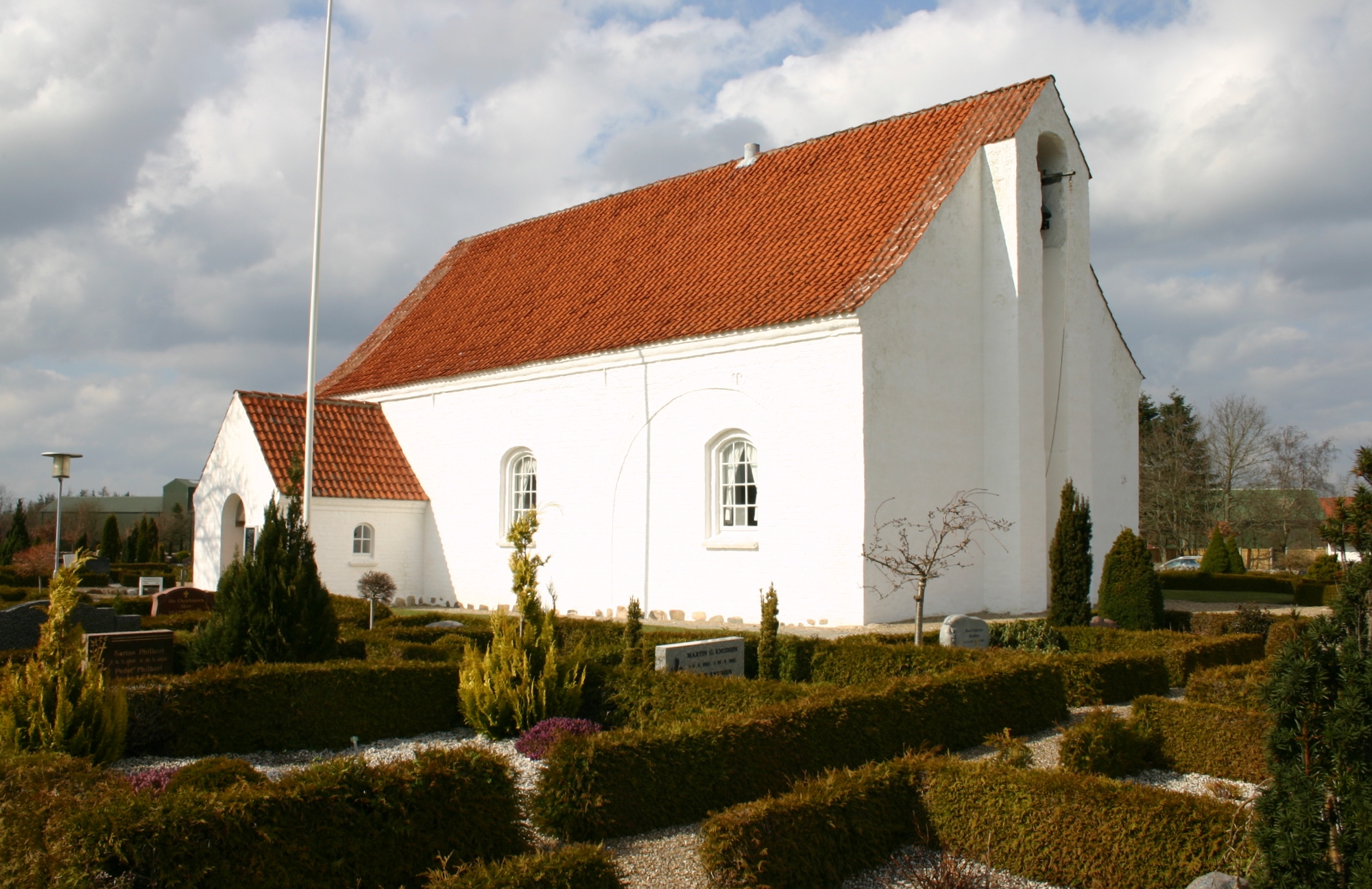 Karup Church, Mid Jutland, Denmark. Karup Kirke, Midtjylland